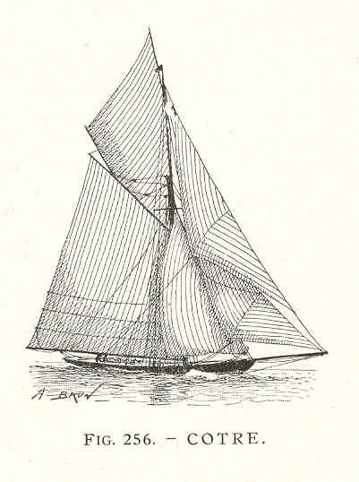 Subject: Sailboats Tag: Vessels